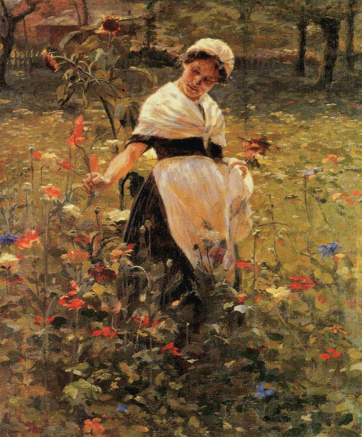 A study of colors, paintings by Symeon Sabbides